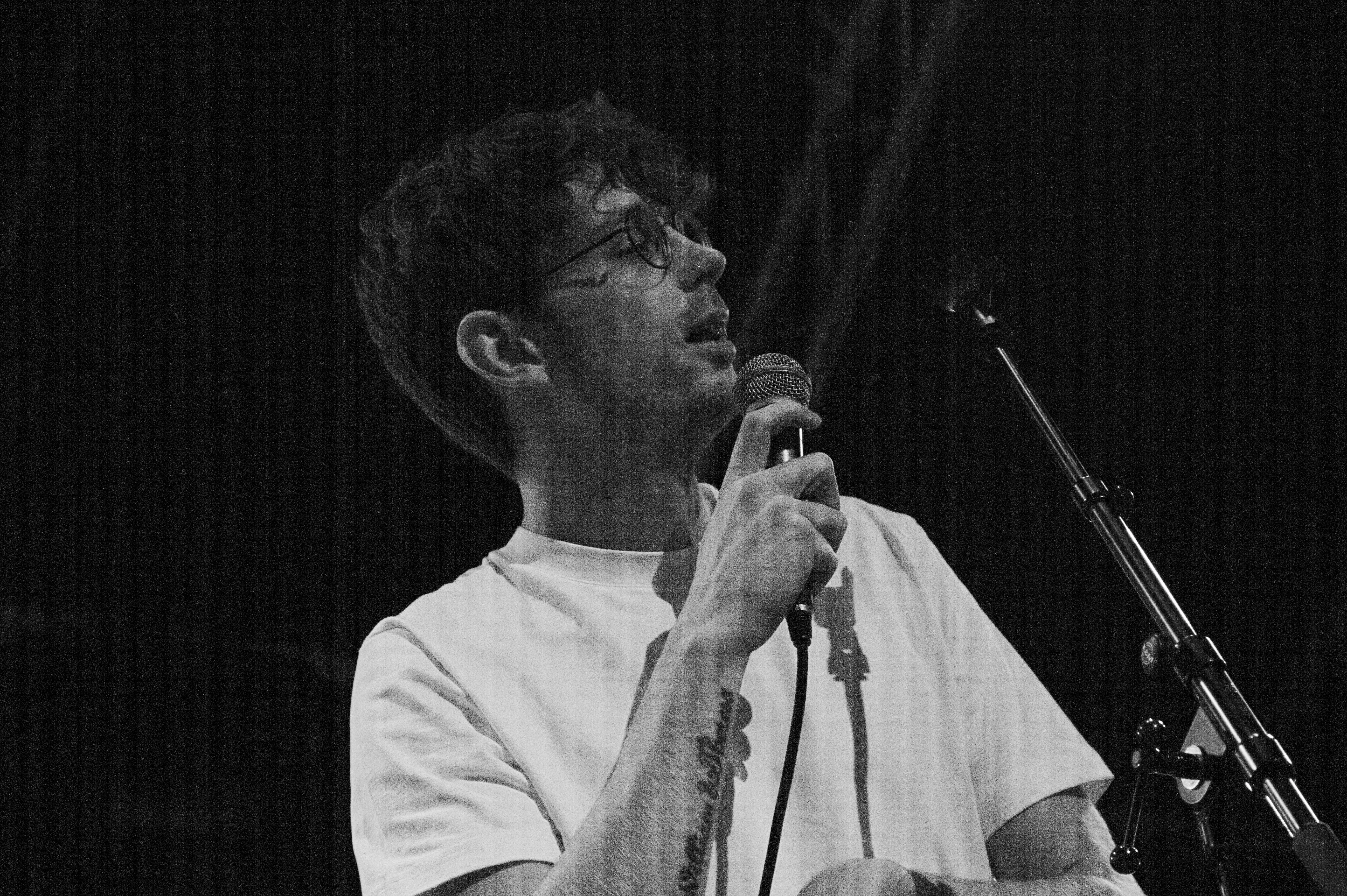 Albin Lee Meldau at Haldern Pop Festival 16